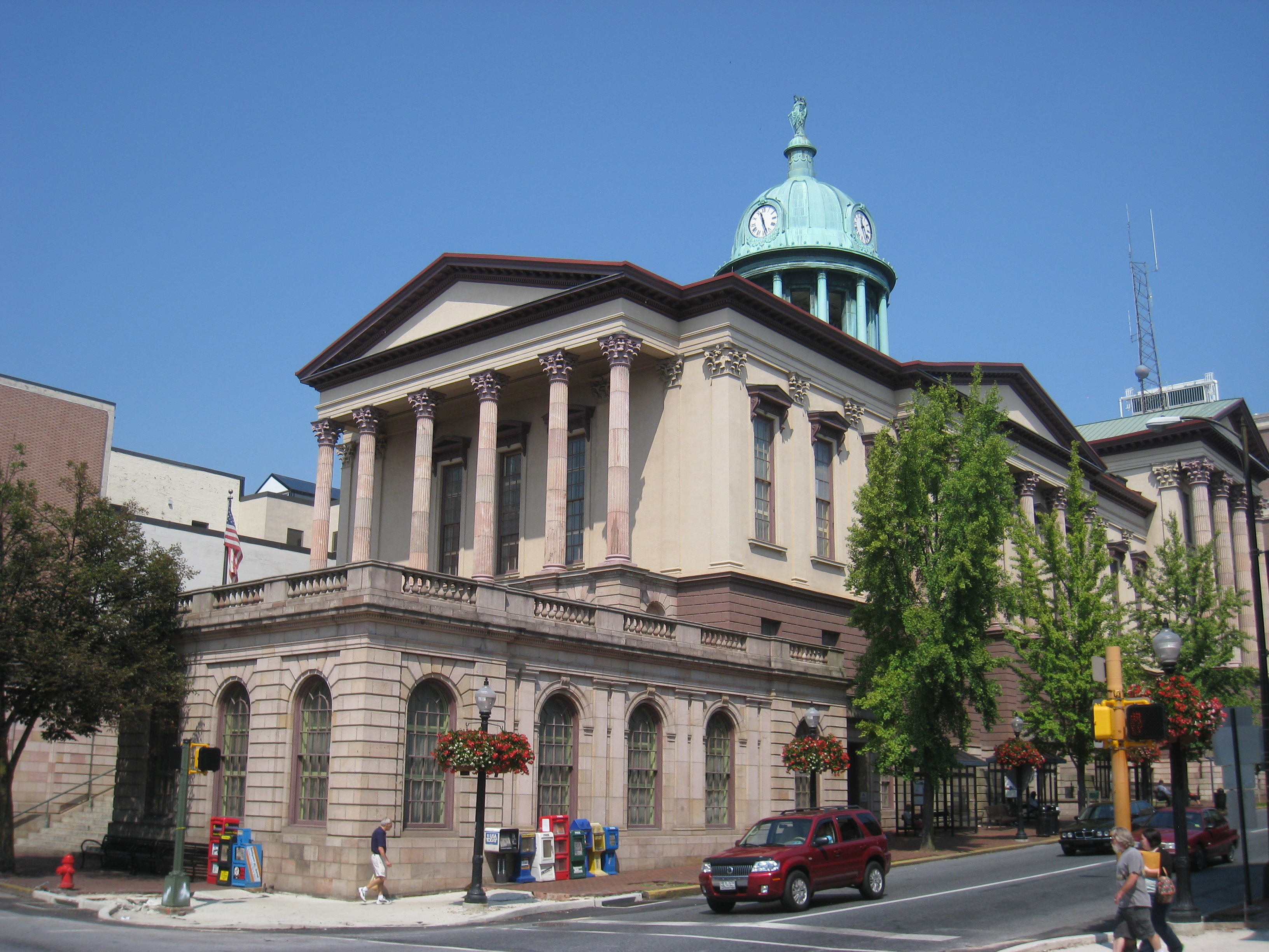 Lancaster County Courthouse, Lancaster, Pennsylvania, USA. Exterior view. Its earliest section was built between 1852-1855 to designs by Philadelphia architect Samuel Sloan.